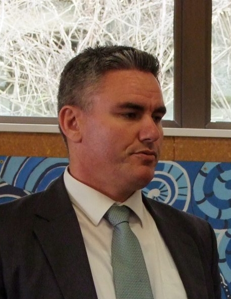 Māori members of TEU have been informally referring to the union as Te Ū for some months now. This name has been incorporated into the official programme of hui-ā-motu last week. TEU Māori members are gathered last week for their annual hui-ā-motu of Te Uepū. The theme of the hui was "Purutia Kia Ū, Purutia Kia Mou”. The hui was held at Te Kuratini Marae, at Massey University’s Wellington campus. The concept of Te Ū derives from the union’s logo and refers to the two centre koru at the heart of the logo which represent the voices of general staff (left red koru) and academic staff (right gold koru). Combined, they form Te Ū (short for ūkaipō) or the original source of sustenance for humankind. The concept also refers to, the heart, mind, and soul of the union, and its diverse membership, ethnicities, and cultures mutually supporting each other – emotionally, physically, intellectually, and spiritually.